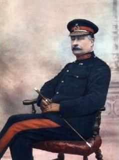 Illustration from Charles Napier Robinson's Celebrities of the Army (London: G. Newnes, 1902)